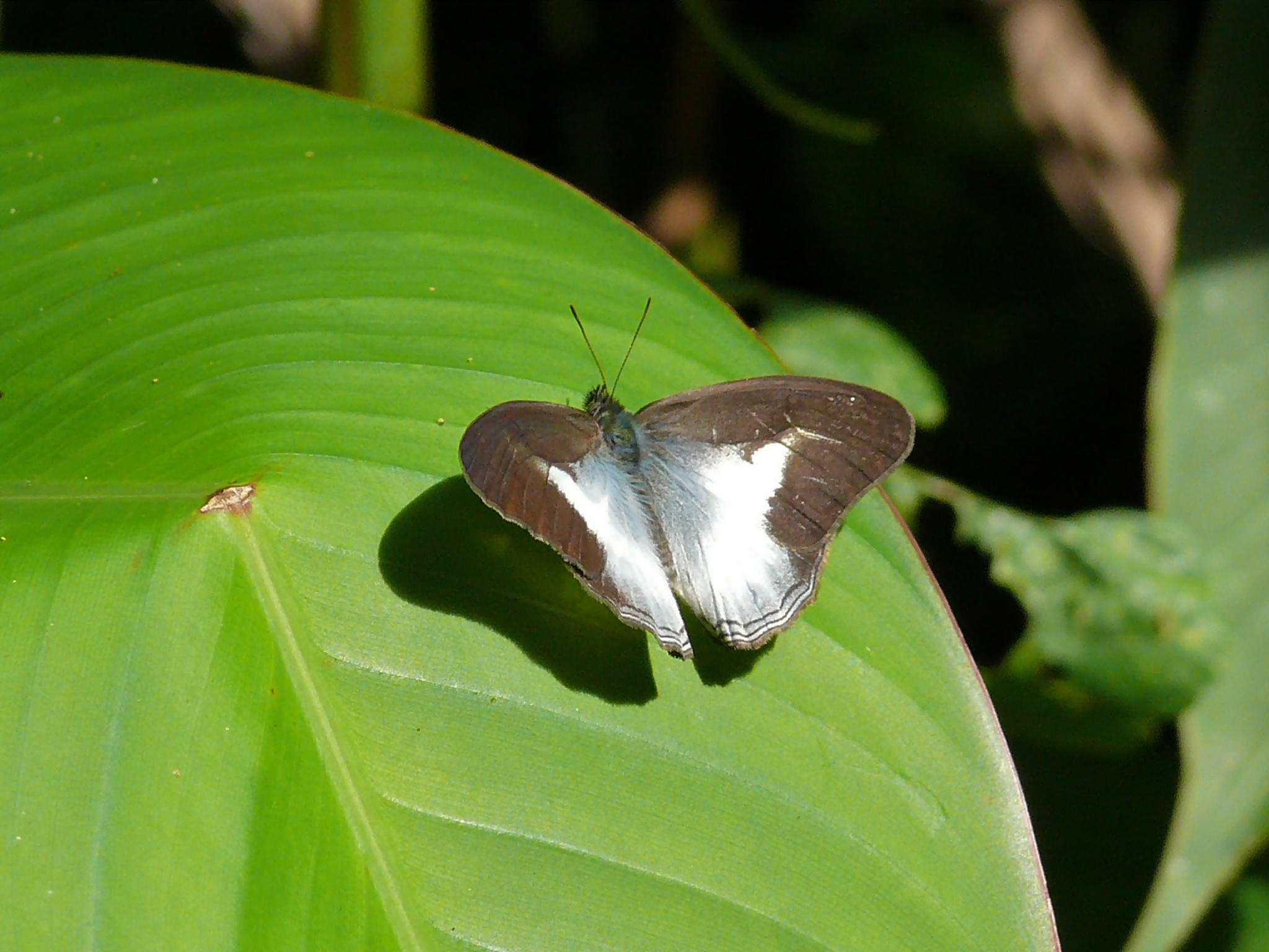 Cockscomb Wildlife Sanctuary, BELIZE